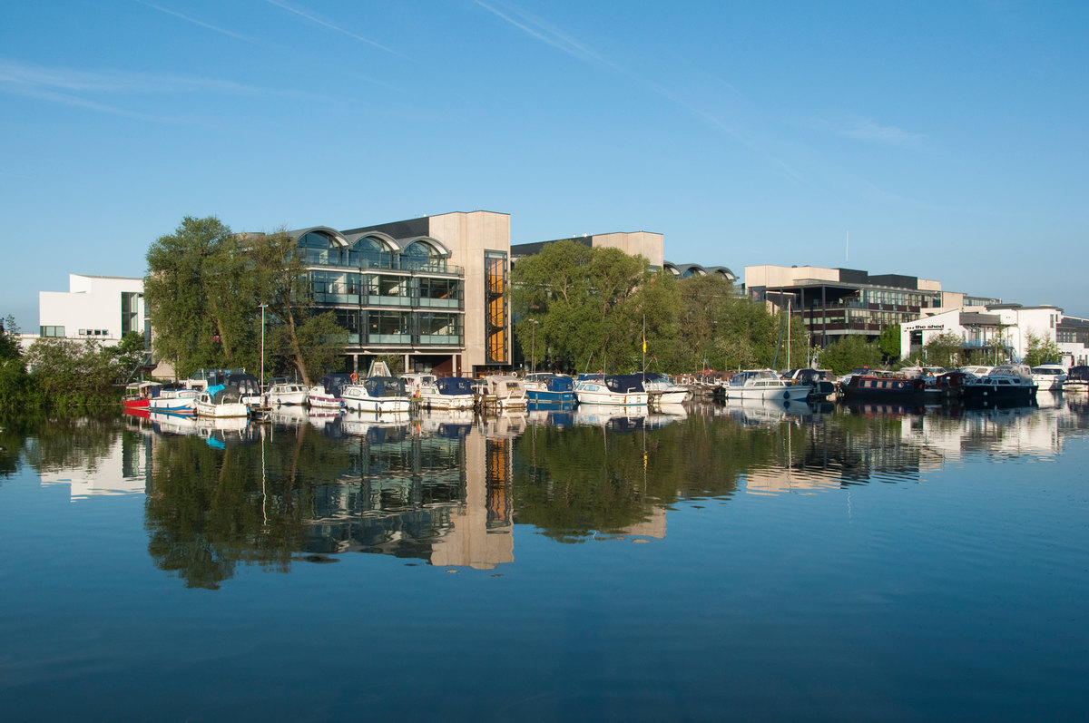 Looking towards the University of Lincoln across the Brayford Pool